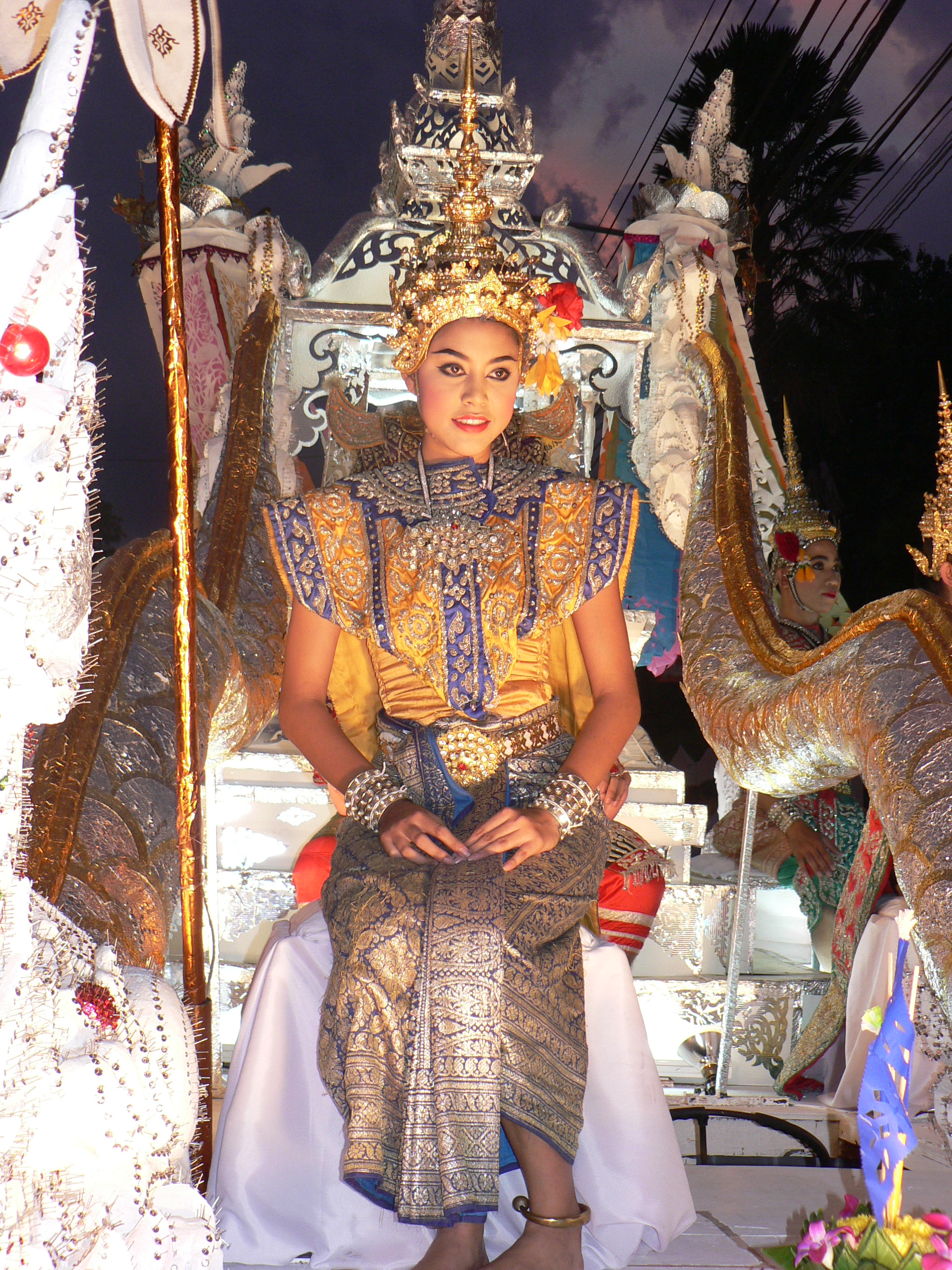 Loi Krathong, Chiang Mai 2005